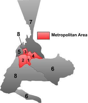 Map of Ürumqi prefecture in Xinjiang province